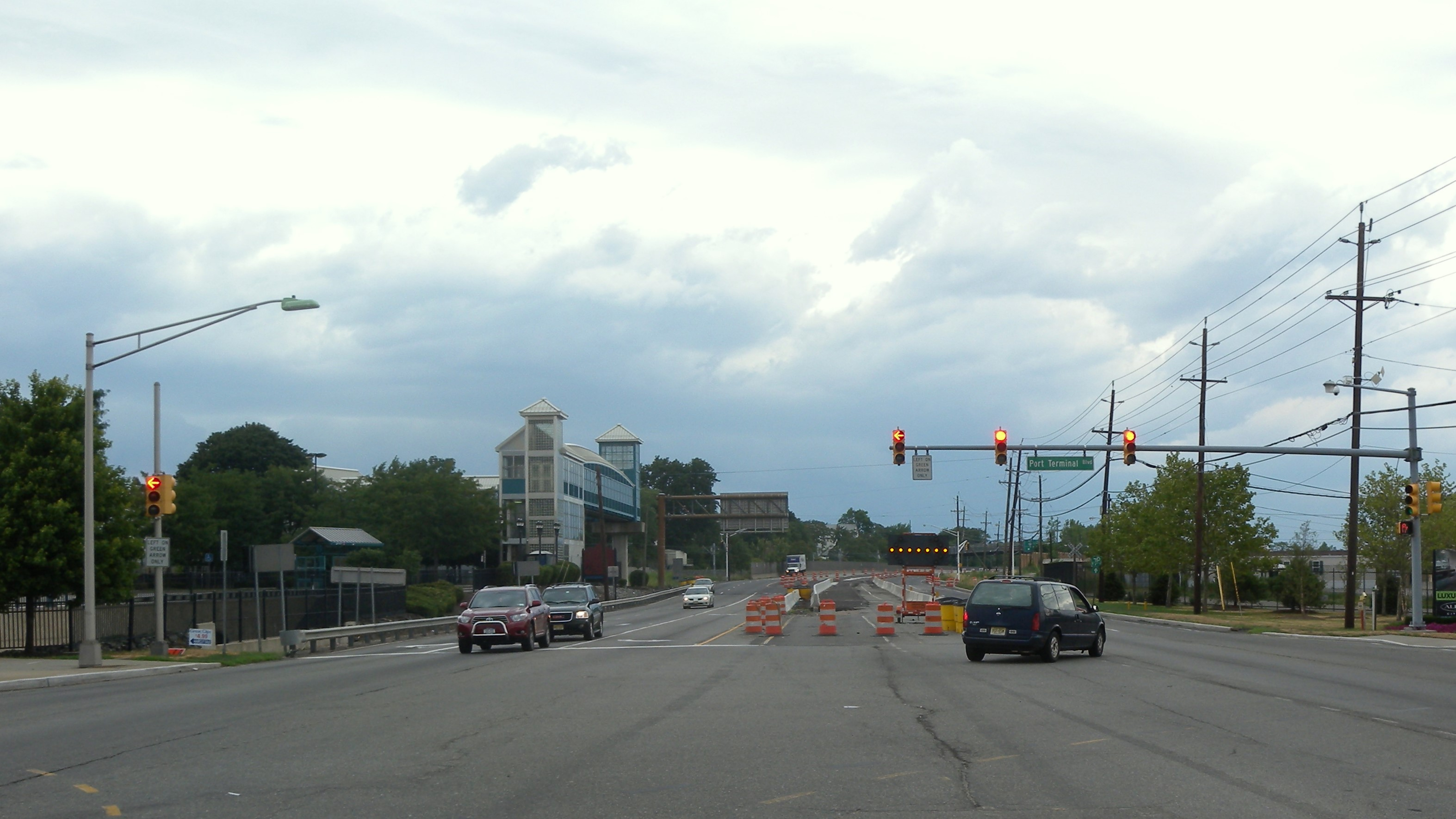 Cropped version.